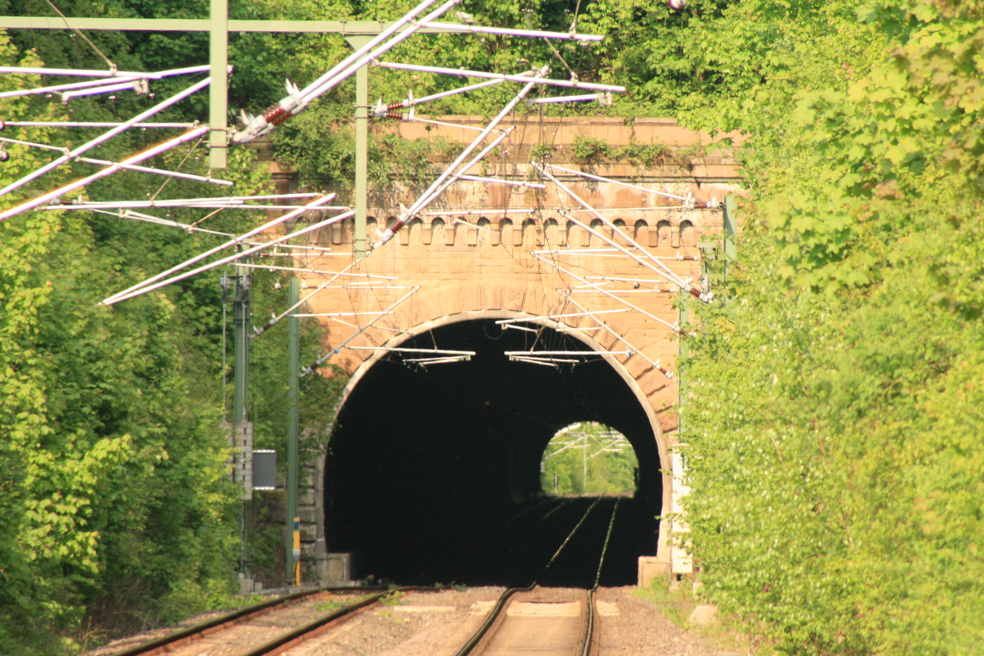 Weinsberg railroad tunnel between Heilbronn and Weinsberg, western portal (Heilbronn)